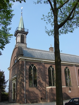 Church of Oud Loosdrecht